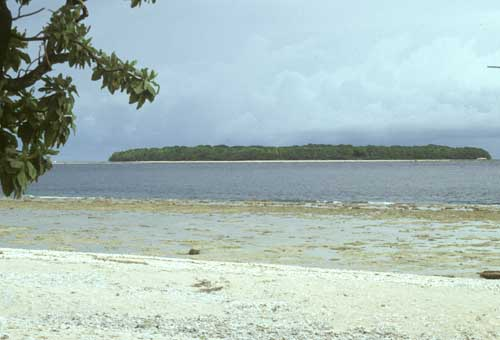 South side of Fanna Island, as seen from Dongosaro (Sonsorol) Island, Southwest Islands of Palau. Original field note: Fanna is very close to the inhabited island of Sonsorol, and is visited frequently for coconut crabs and seabirds, as well as for relaxation.